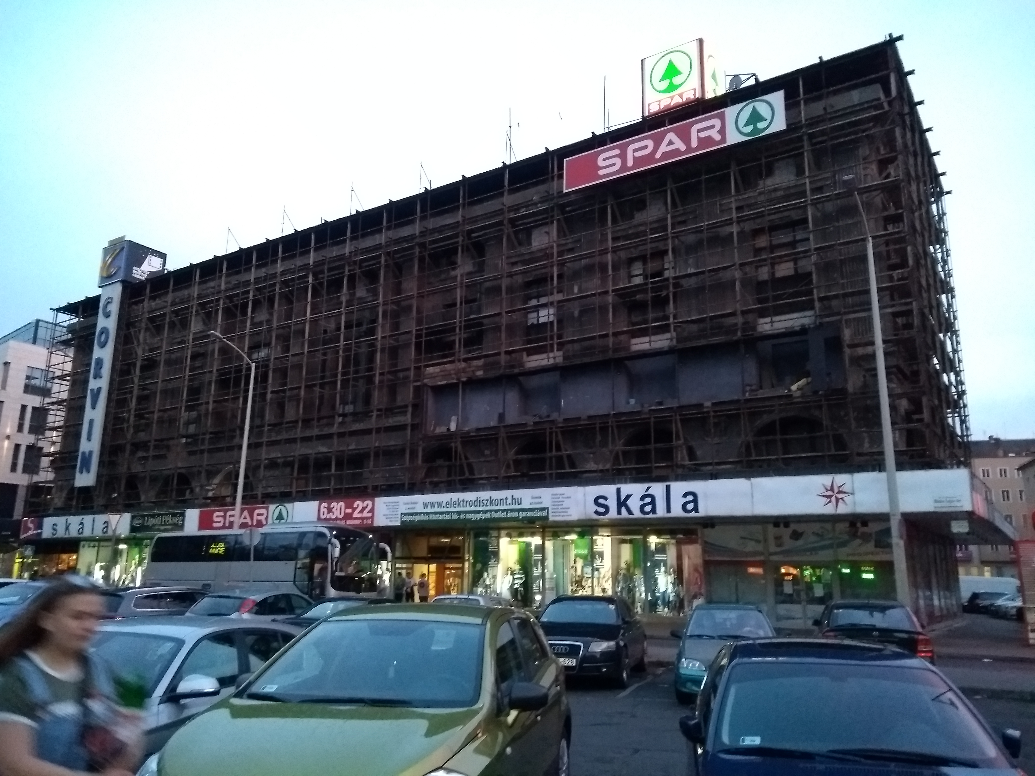 Corvin Áruház at Blaha Lujza tér